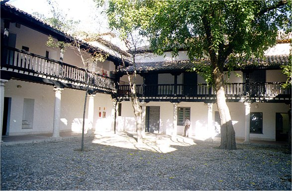 Hospital of San Jose, Getafe, (Madrid), Spain Author: Miguel303xm Date: June 23rd, 2005 Place: Hospital of San Jose, Getafe, Madrid, Spain